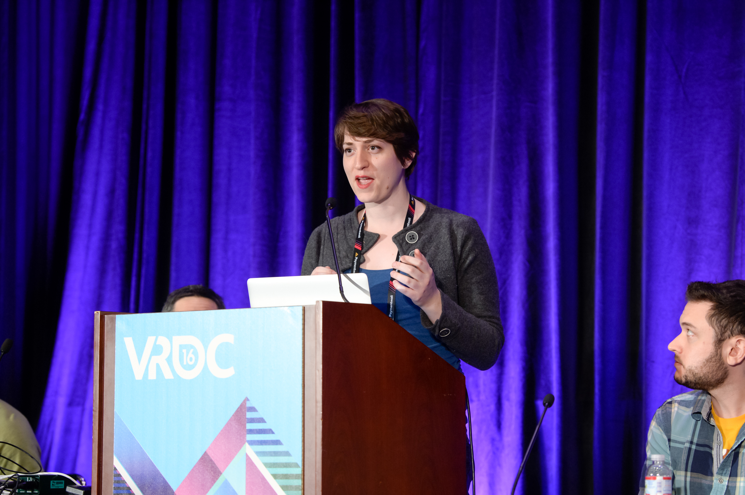 Samantha Kalman gives a talk at the 2016 VRDC held at the 2016 Game Developers Conference.